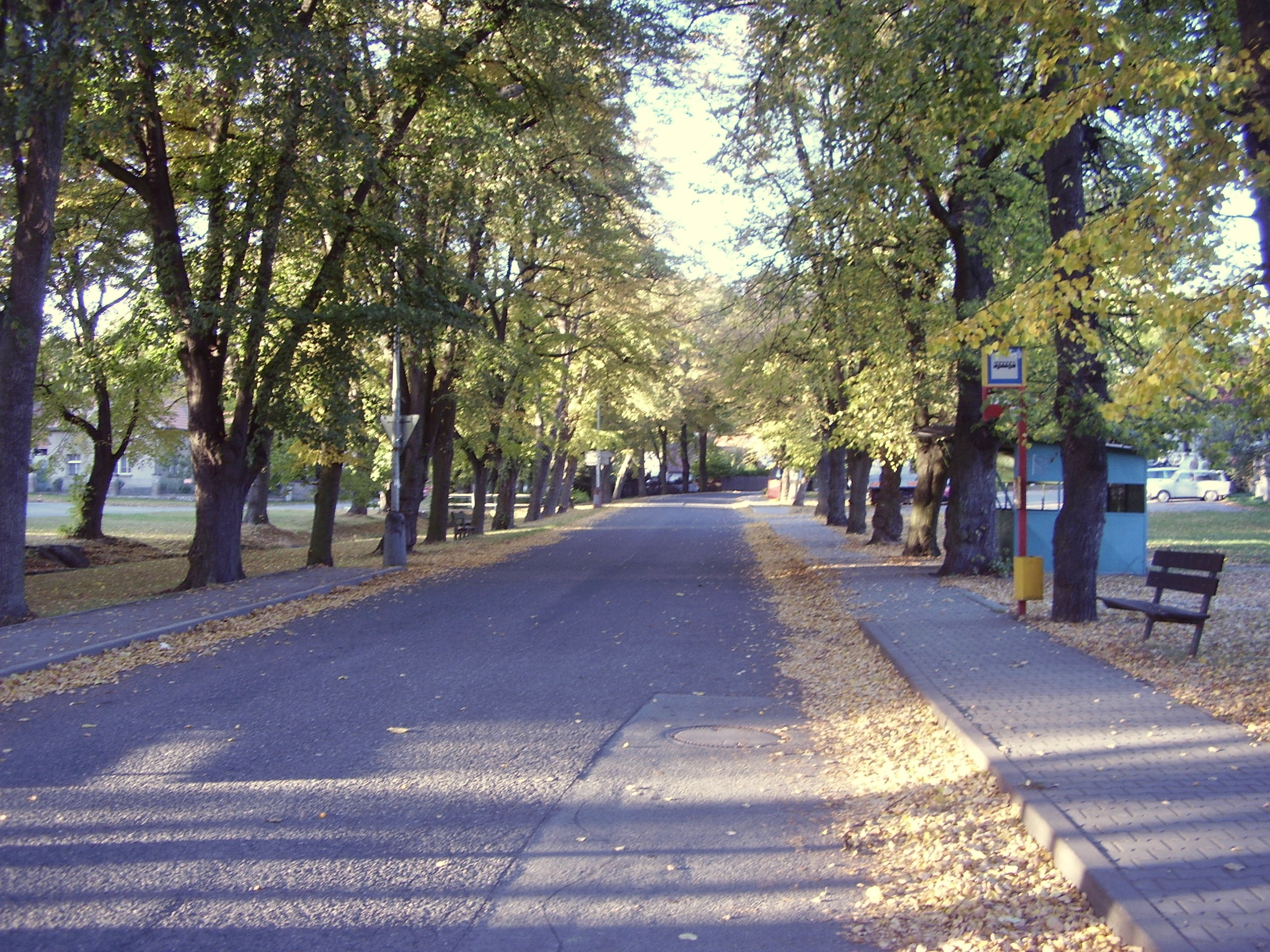 Alley on square in Jevany, Prague-East District